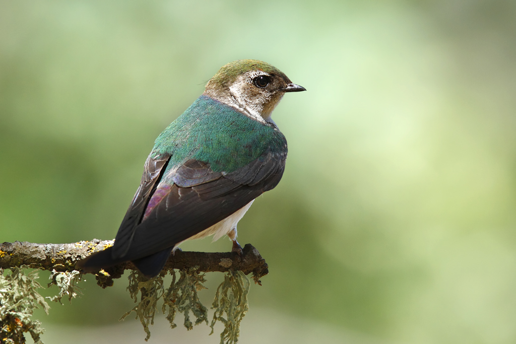 A female Violet-green Swallow in San Luis Obispo, California, USA.